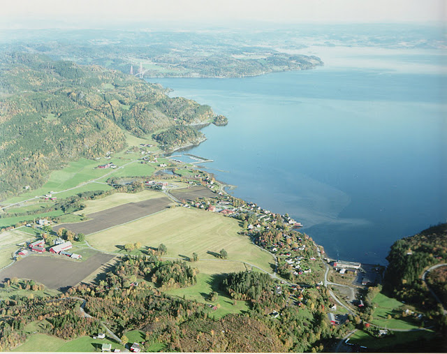 Mosvik, Norway. Aerial photo from 2001